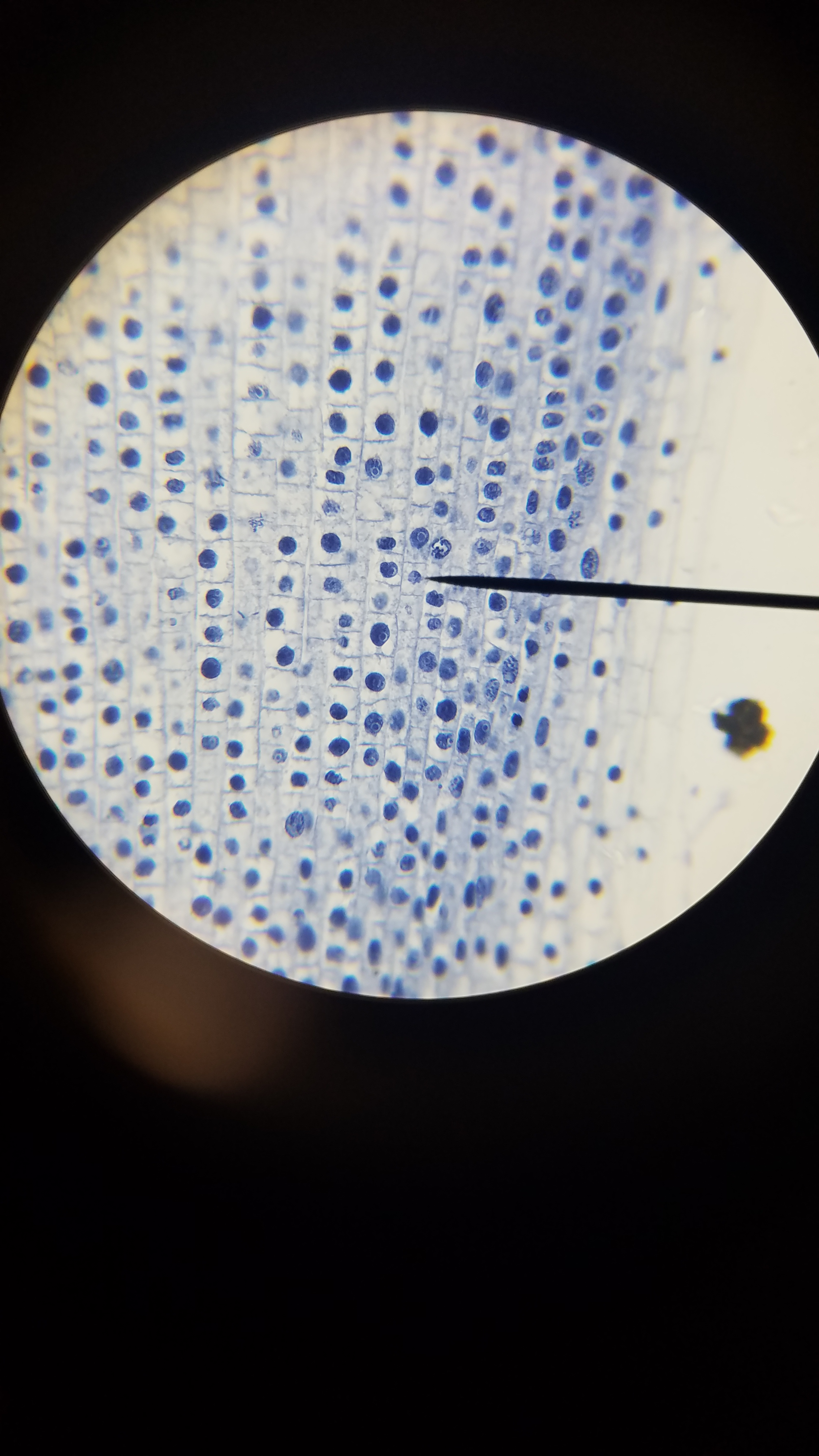 This is a photo of onion cells going through mitosis.